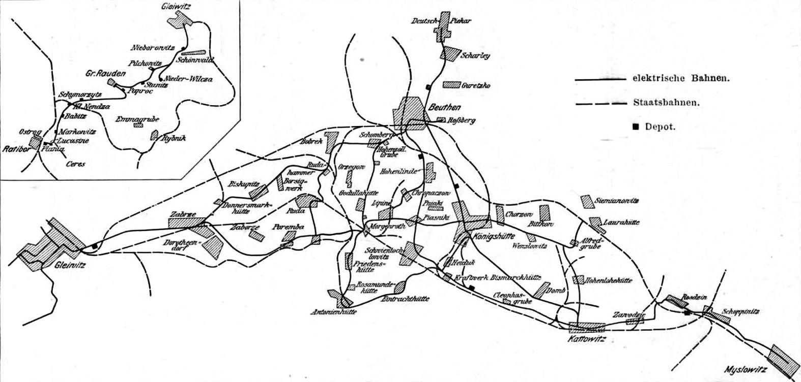 Map of electric tram lines of the company Schlesiche Kleinbahn AG (continuous line) and state railway (dotted lines), in the corner a map of the steam railway on the Gliwice-Rudy-Racibórz line. The depot was marked with a black square, ca. 1907.